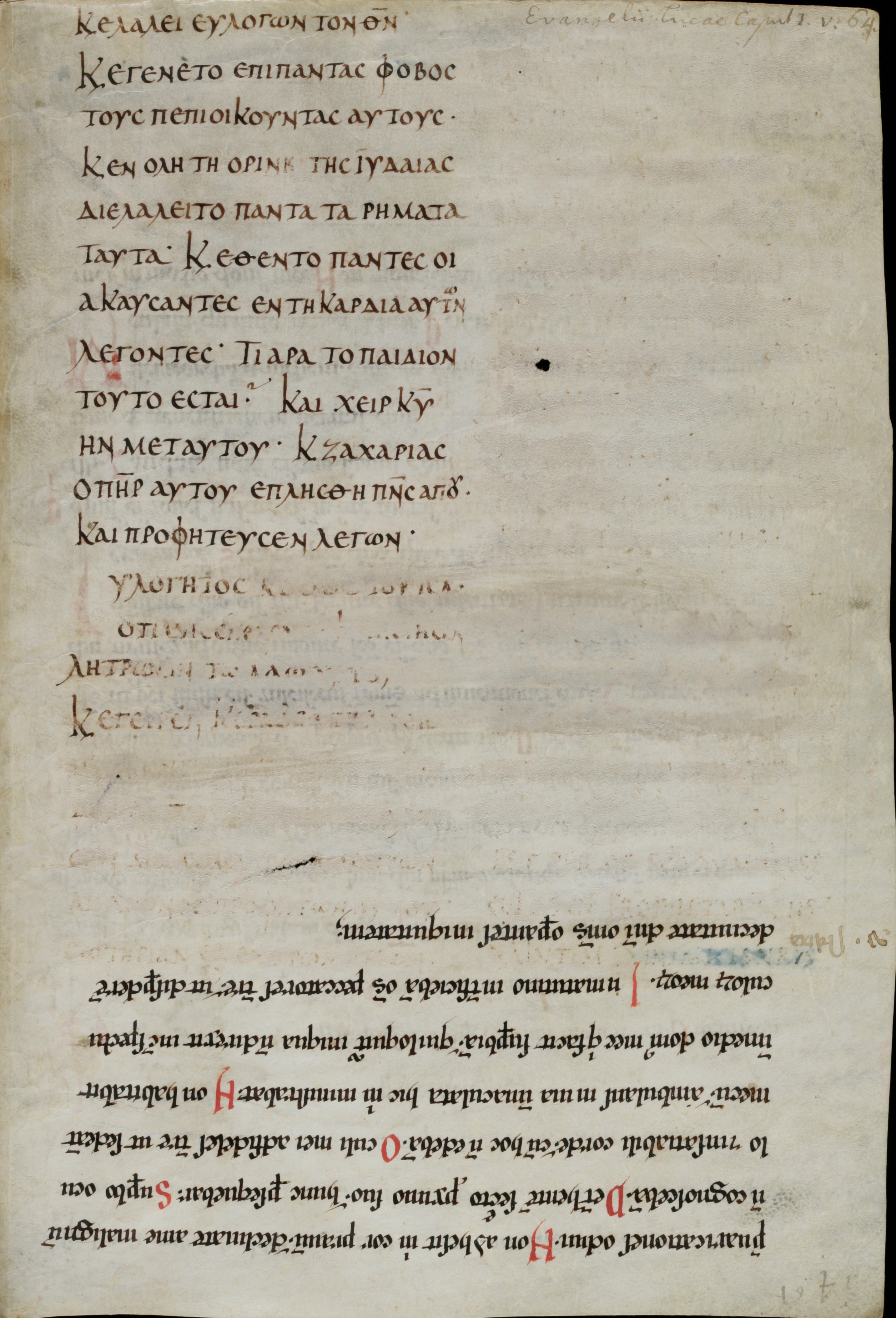 page of palimpsest, the lower text belongs to the Gospel of Luke in Greek, the upper text is Latin Vulgate